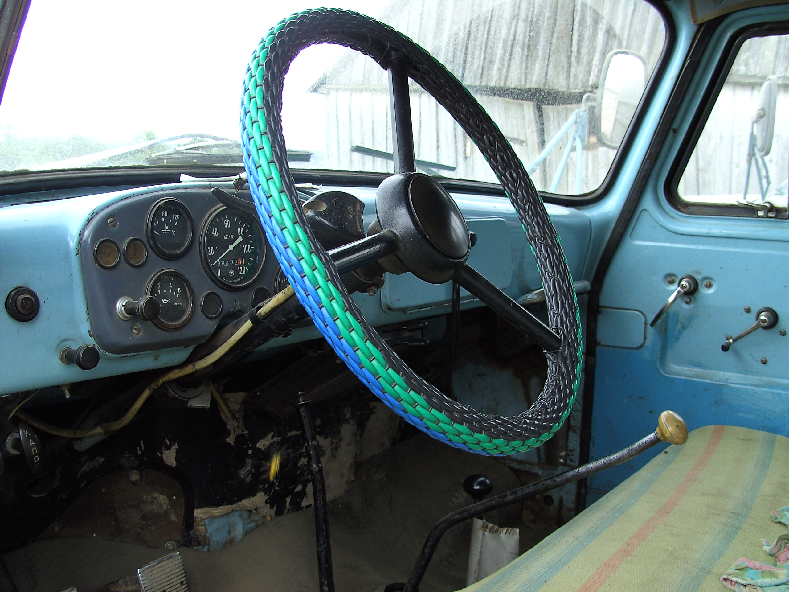 The steering wheel of a GAZ-52/GAZ-53 truck.